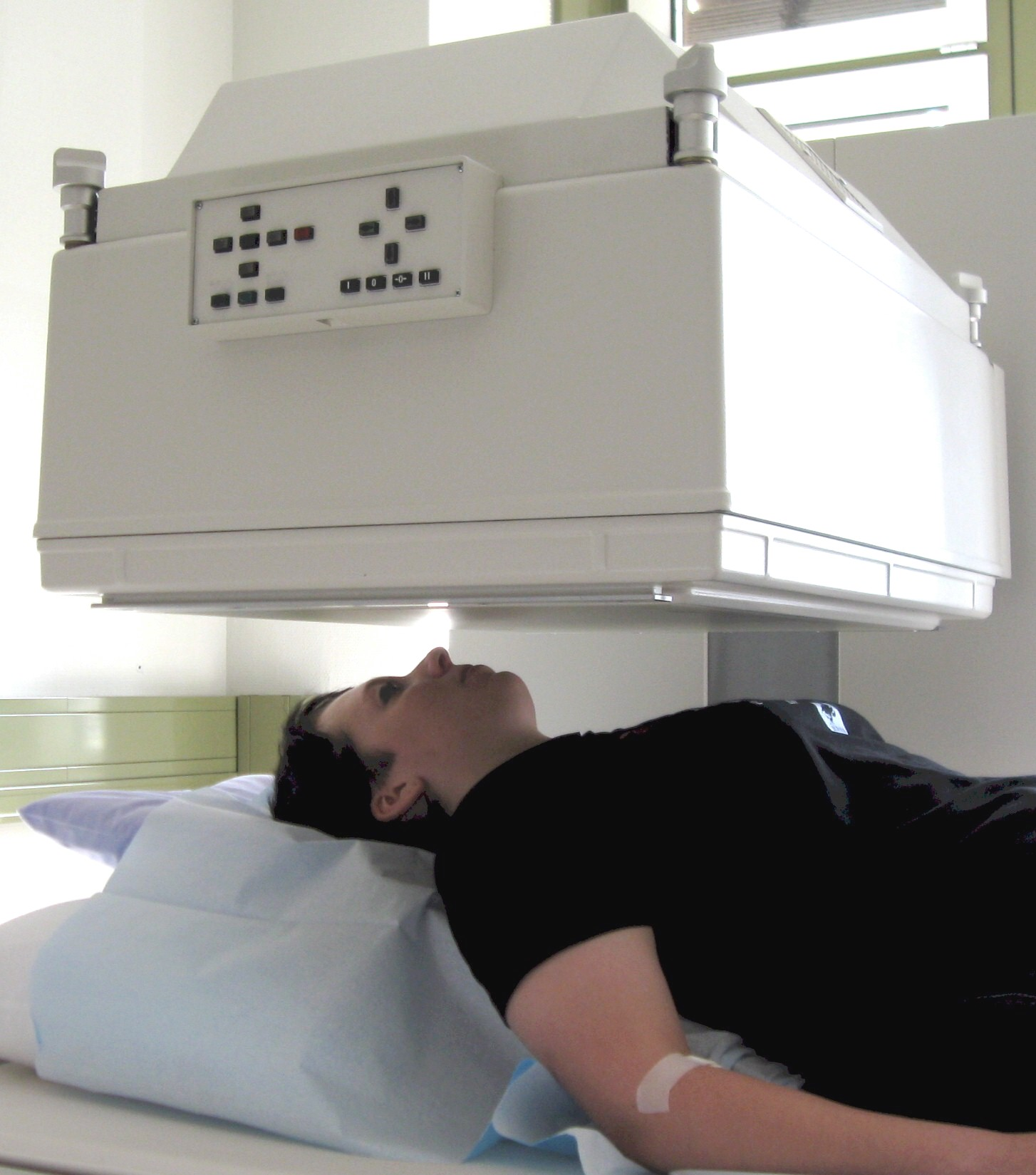 Me under a gamma camera for a scintigraphy of my thyroid.